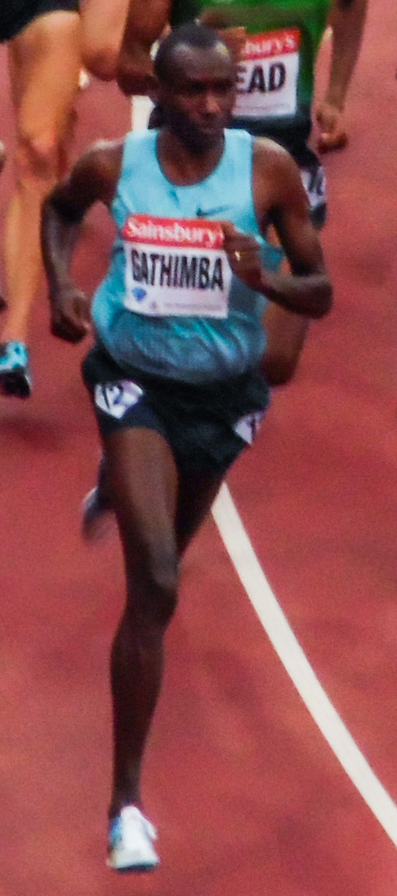 Gideon Gathimba competing at Sainsbury's Anniversary Games